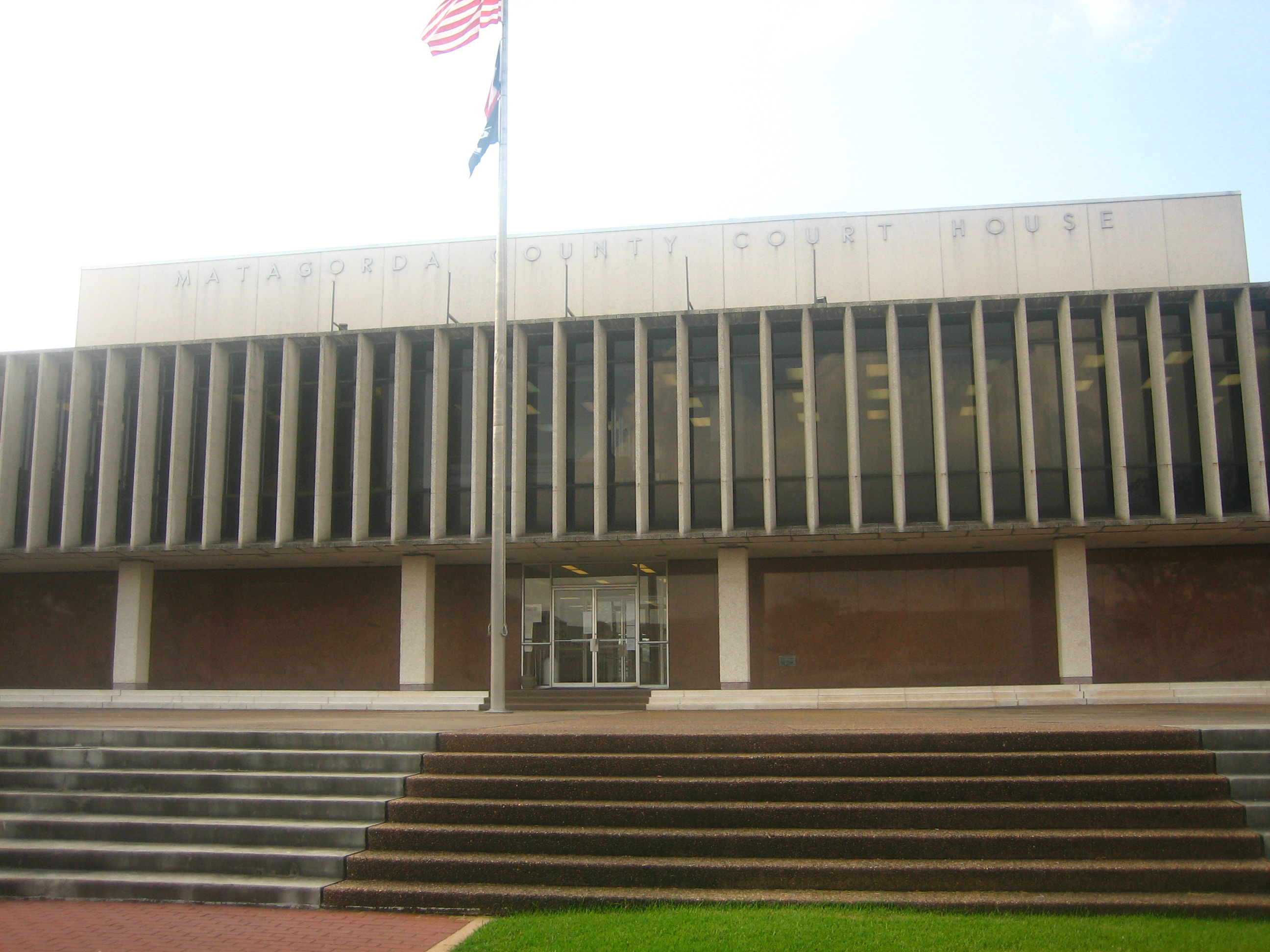 The Matagorda County Courthouse in Bay City, Texas, United States. I took photo on July 31, 2008.Billy Hathorn (talk) 18:56, 7 September 2008 (UTC)